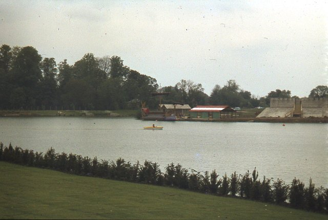 Thorpe Park Lake in early days The old Gravel Pits now transformed into a Theme Park